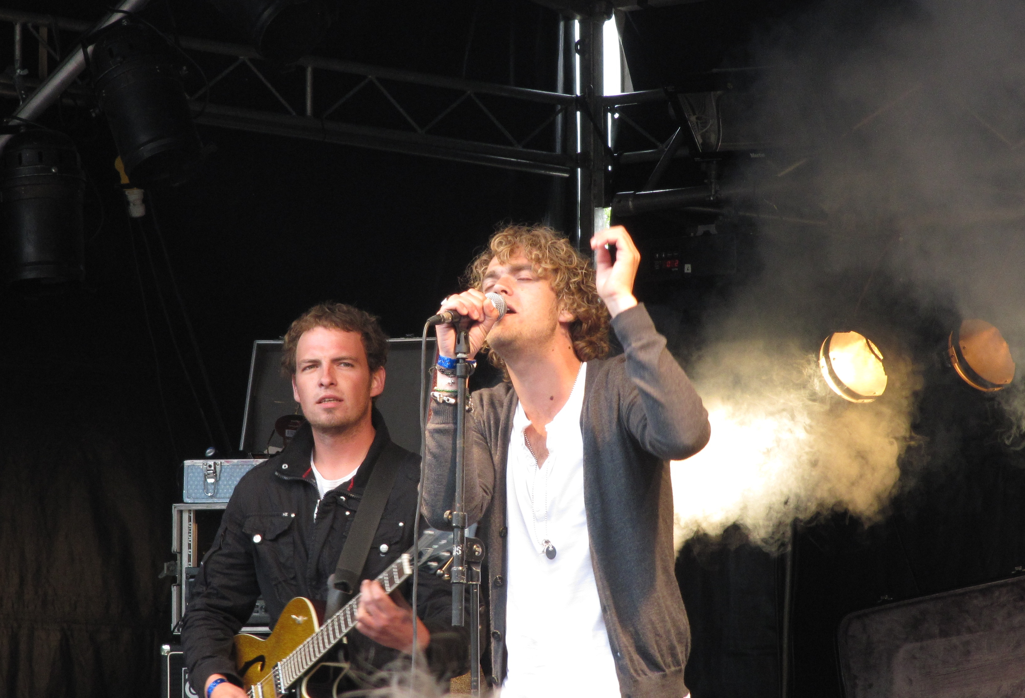 The Rudolfs live at "Op de Tôffel" festival in Vierlingsbeek, NL